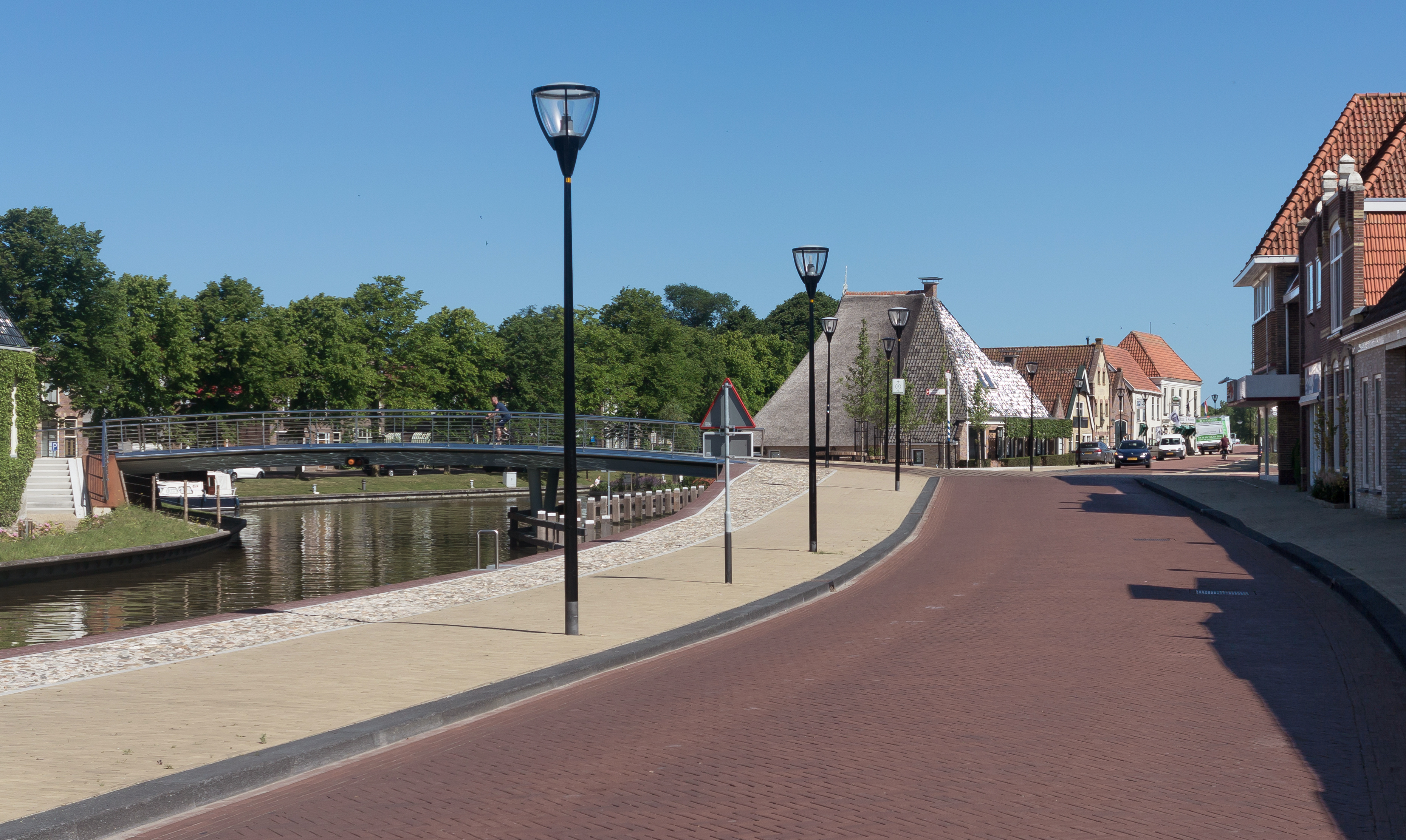 Franeker, view to a street: het Oud Kaatsveld